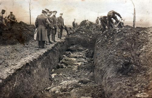 "Common grave near Vimy 1917" (but probably Fromelles 1916). Fallen British/Australian (perhaps also German) Soldiers in a common grave, dug by German soldiers. The picture was later retouched (probably because of the airy attitude of the German army officers in the light of the fallen soldiers), compare with File:Massengrab Fromelles retuschiert.jpg